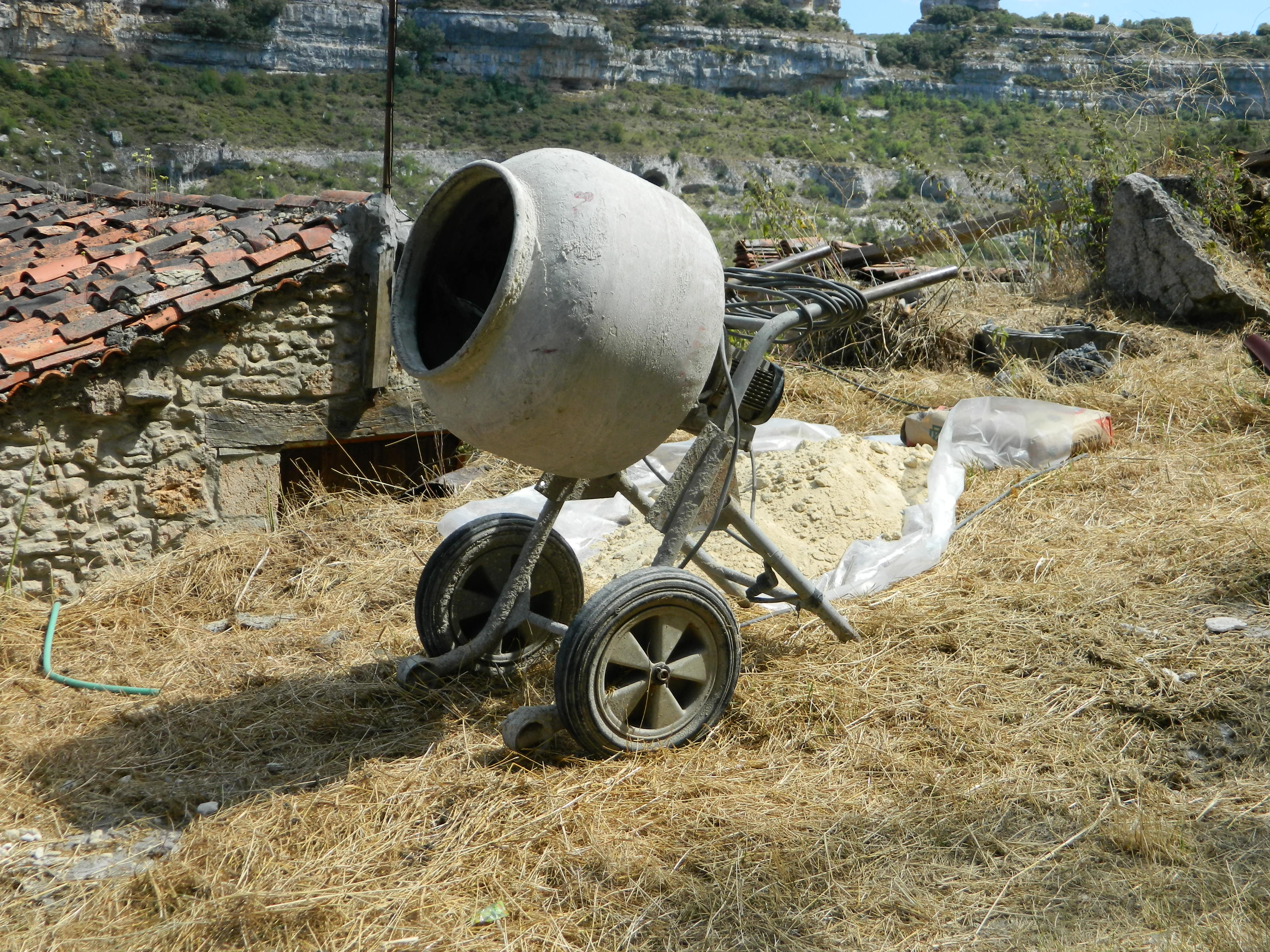 Wheelbarrows and Concrete mixer all in one. Orbaneja del Castillo Spain